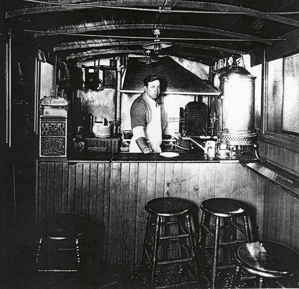 Louis' Lunch: Burger Restaurant in New Haven, CT; recognized as the home of the first hamburger and first steak sandwich in U.S. history, Connecticut Local Legacies project--U.S. Library of Congress